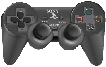 Drawing of a playstation control.